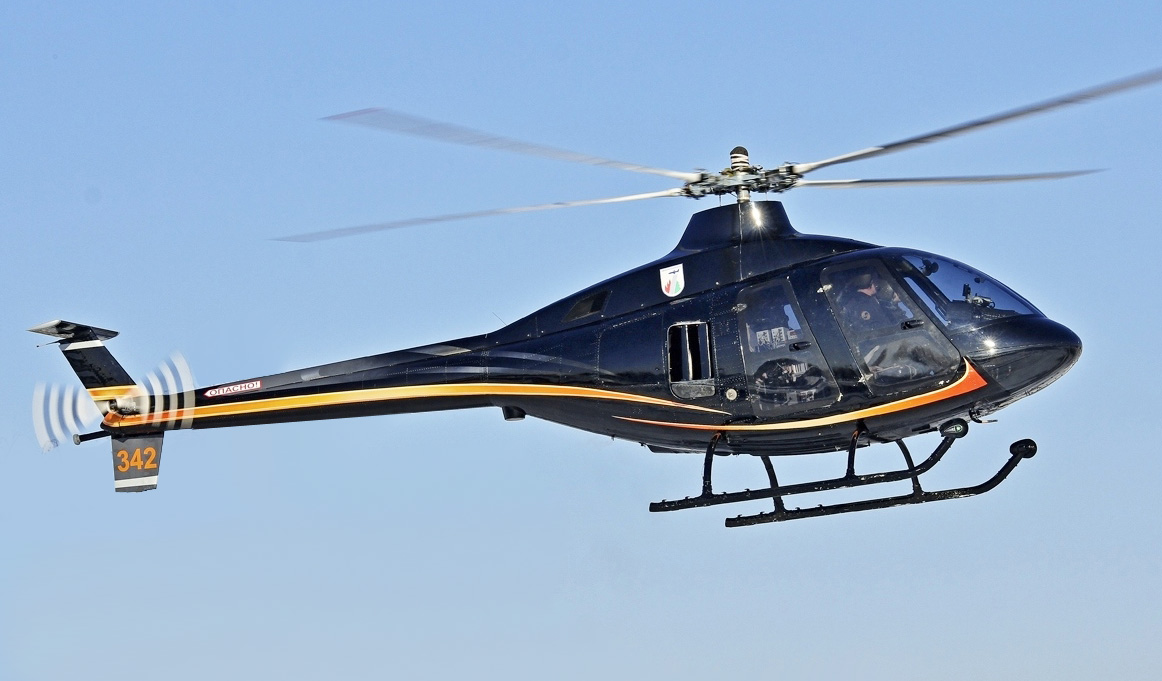 Миль Ми-34С1